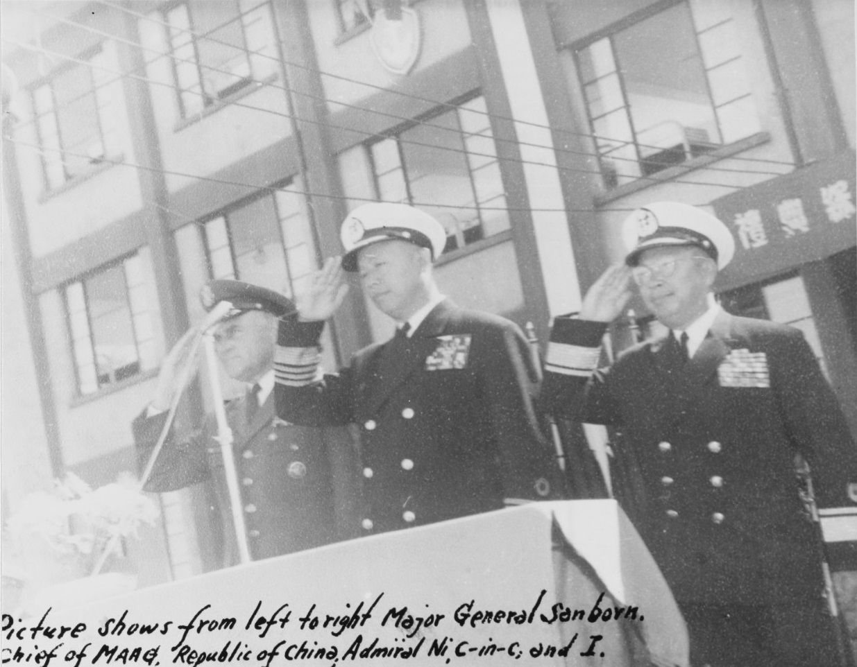 Senior officers review a parade of trainees in March 1965. Present L to R are: Major General Sanborn, USA, Chief of MAAG, ROC, Admiral Ni, ROCN, CINC, and Rear Admiral Chou Fei, ROCN Training Station Commanding Officer. 中文（台灣）: 高階軍官於1965年3月檢閱學員列隊。由左至右：美軍少將暨駐中華民國美軍顧問團團長桑鵬、中華民國海軍上將暨總司令黎玉璽、中華民國海軍少將暨訓練司令部司令周非。